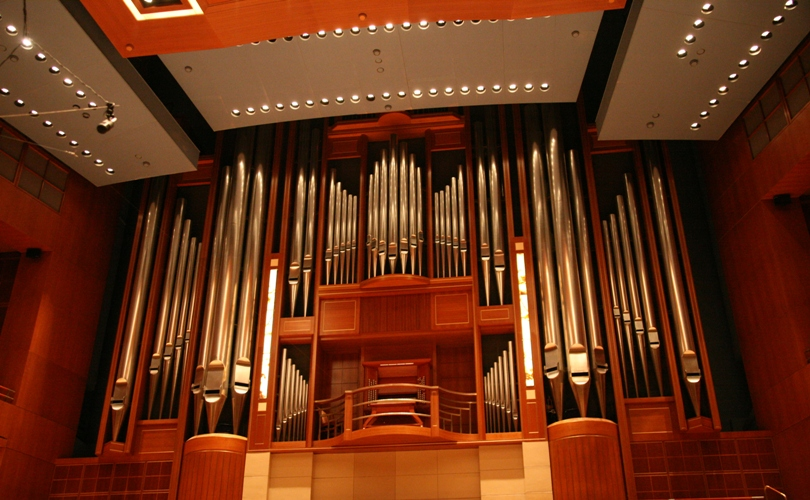 The Lay Family Organ, Eugene McDermott Concert Hall, Morton H. Meyerson Symphony Center